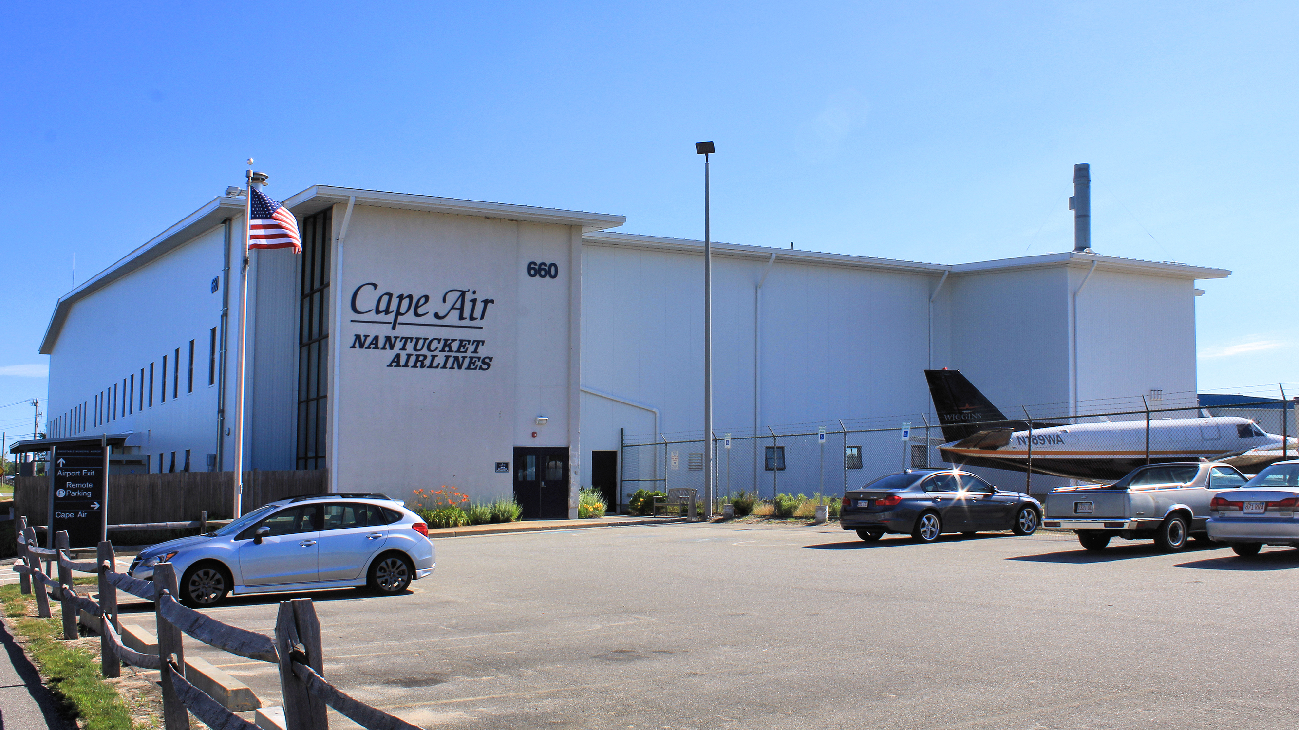 Cape Air and Nantucket Airlines company headquarters at Barnstable Municipal Airport, Hyannis, Massachusetts, United States